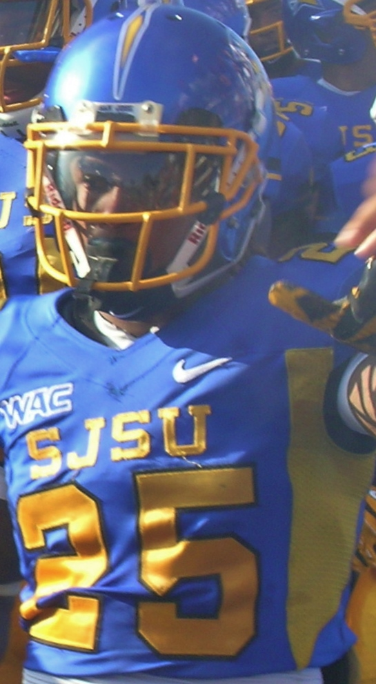 San Jose State defensive back Ronnie Yell before a 2012 football game vs Colorado State University.